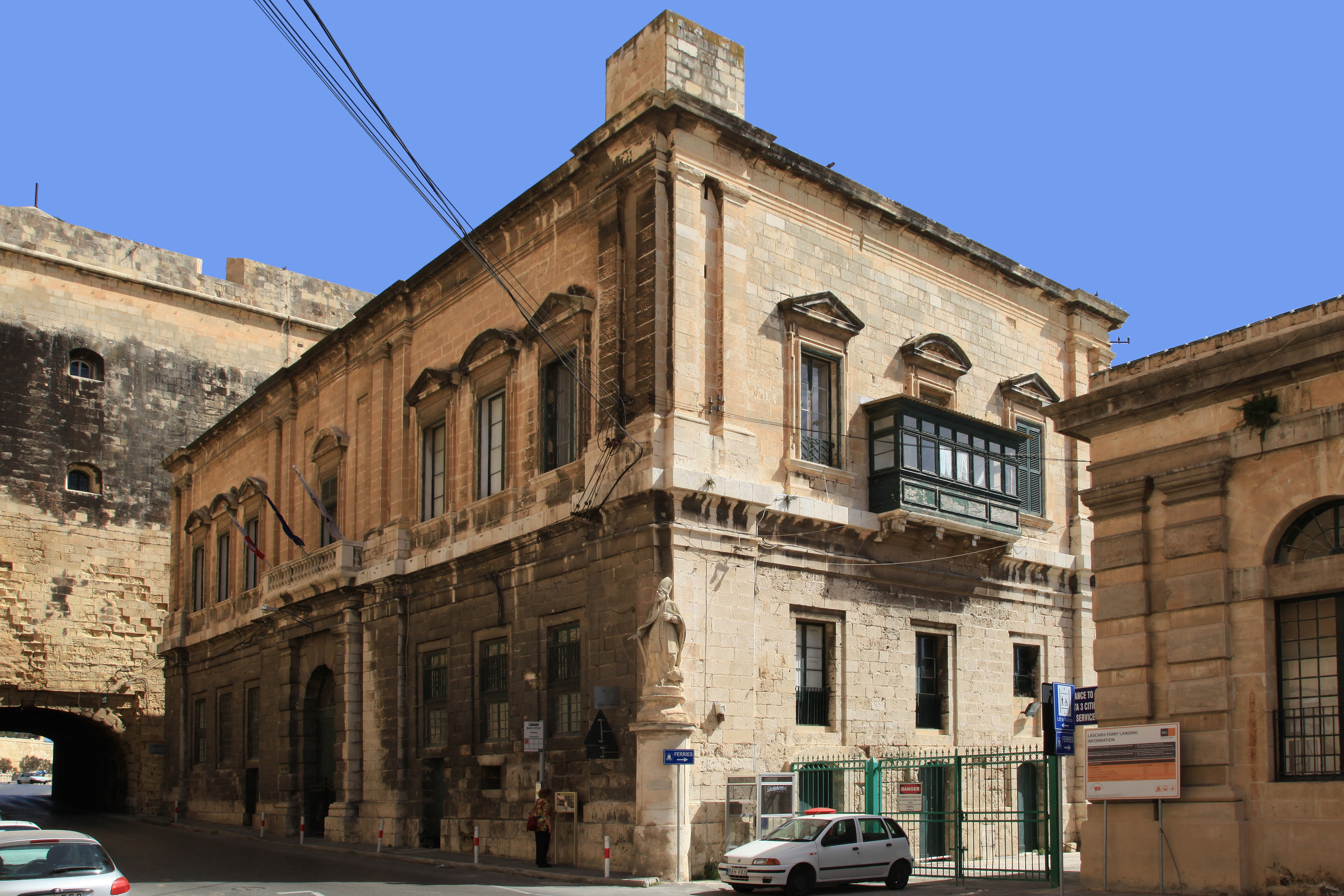 Customs House at Xatt Lascaris in Valletta, Malta